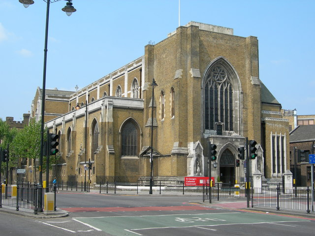 St George's Cathedral, Southwark At the corner of Lambeth Road and St George's Road. Here is a link to their website